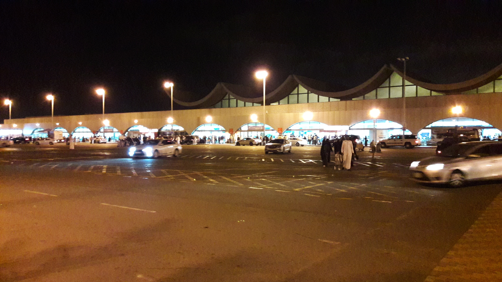 King Abdulaziz International Airport - North Terminal